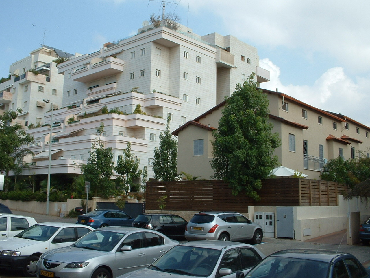 "Revivim", a neighborhood in East-North Tel Aviv